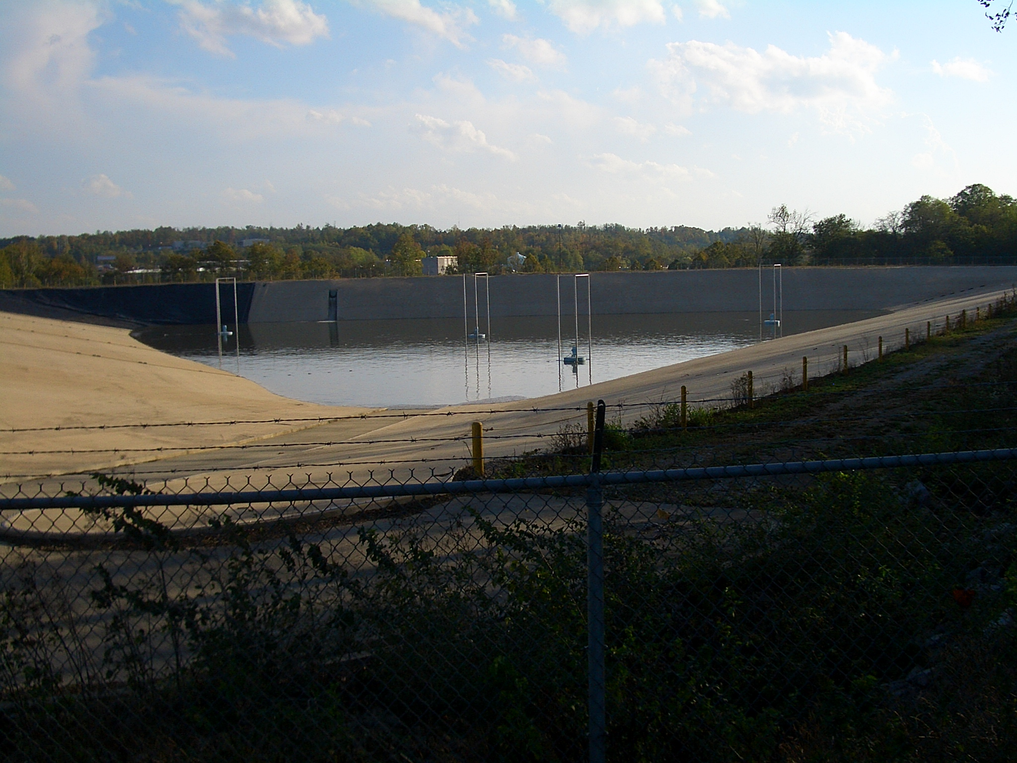 Dillman Road Wastewater Treatment Plant on the south side of Bloomington, near SR 37. The treated effluent from here goes to Clear Creek.